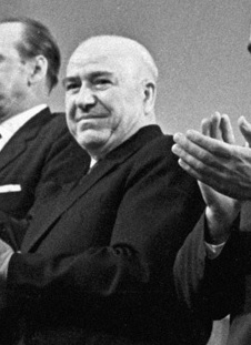 “Lenin prize-giving ceremony"